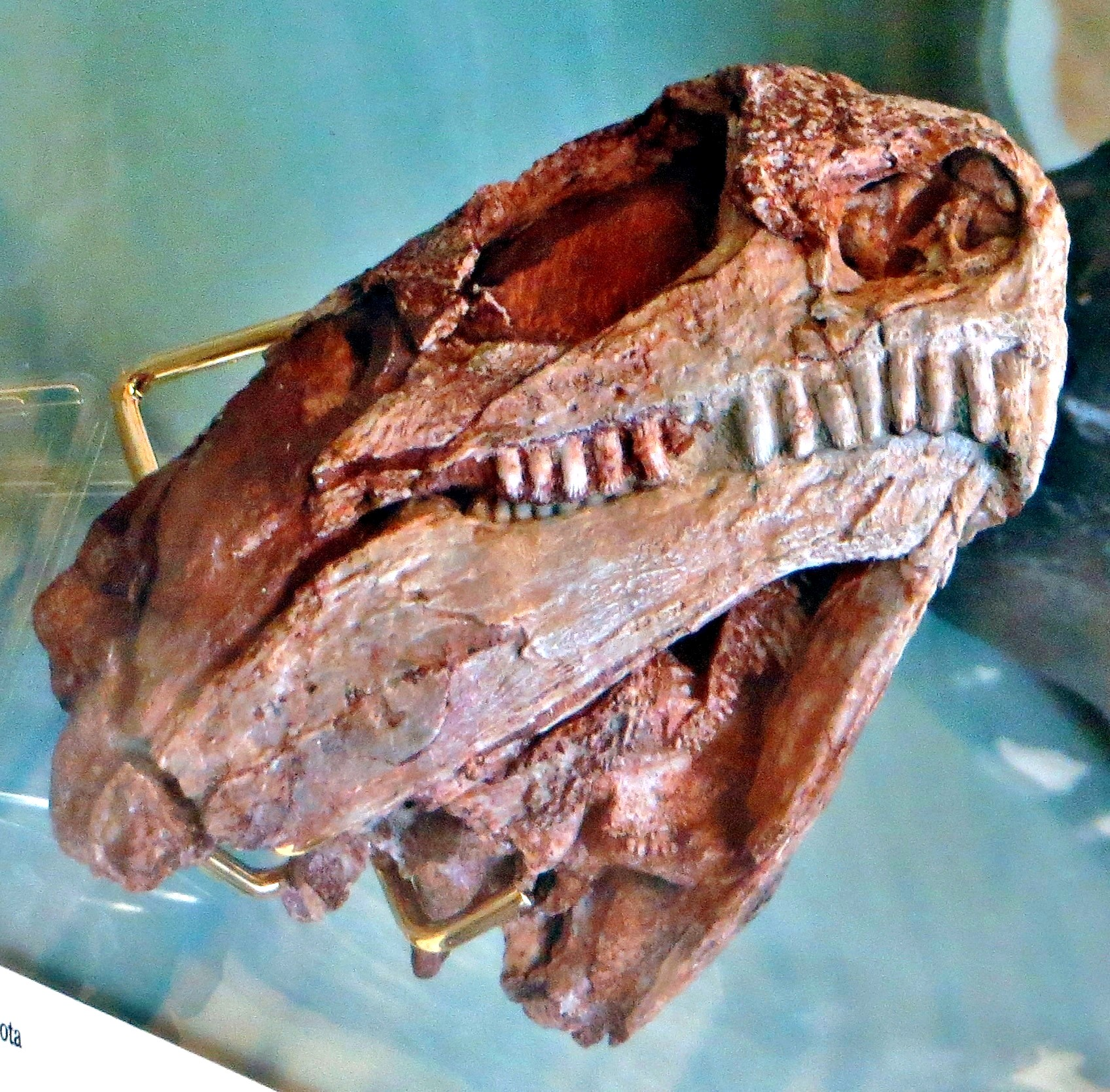 Euromycter rutenus : skull in lateroventral view on display at the National Museum of Natural History in Paris